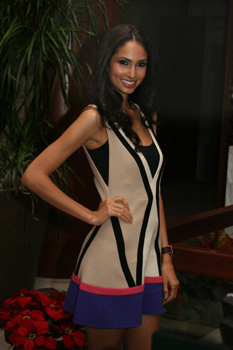 Miss Malaysia 2007 Deborah Priya Henry. Photo taken in Miss World 2007, Sanya 1/12/07.